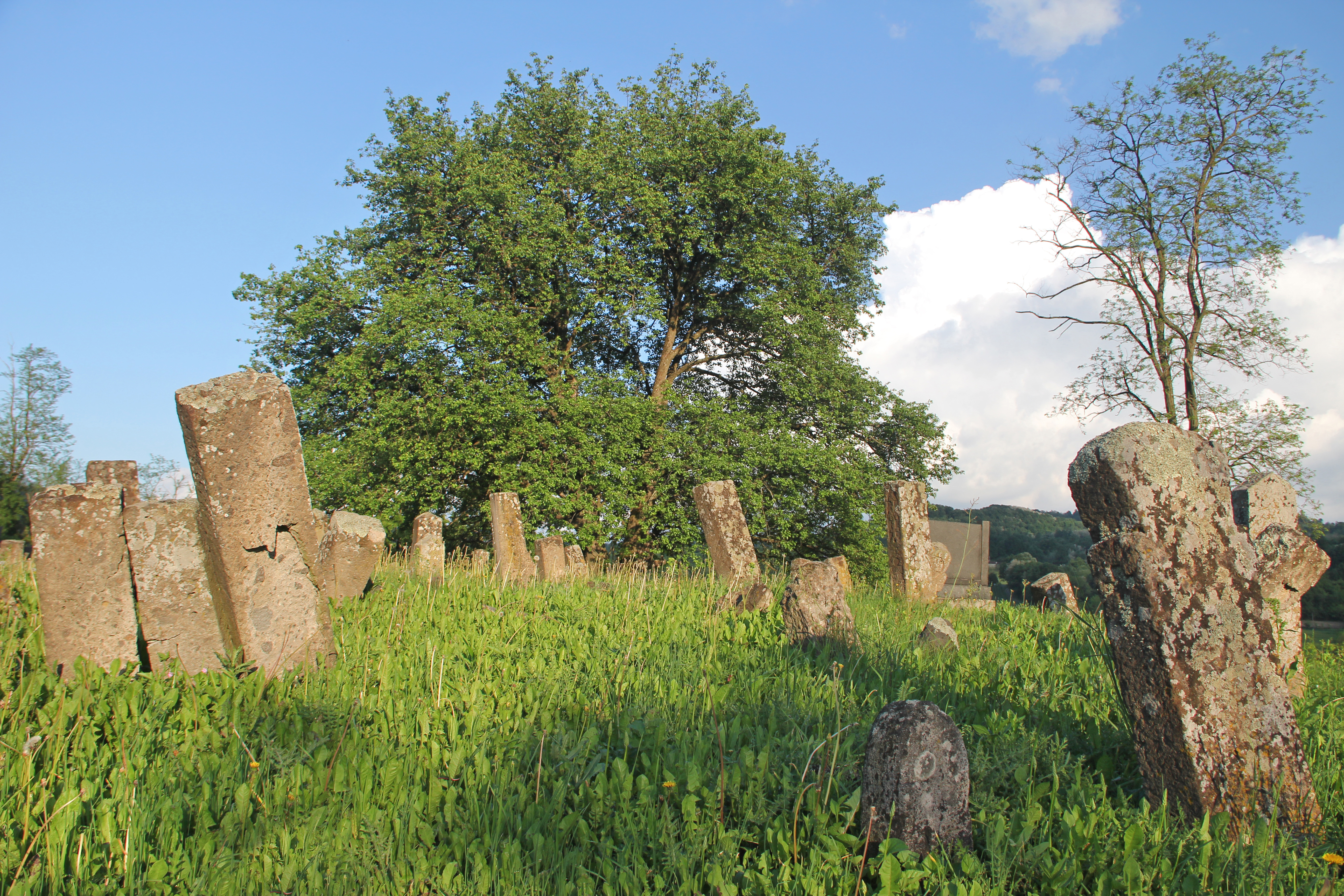 Old gravestones at the cemetery in the village of Cerova (the municipality of Gornji Milanovac, Serbia).